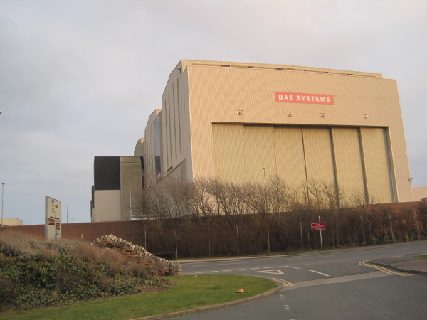 Devonshire Dock Hall, Barrow-in-Furness, England